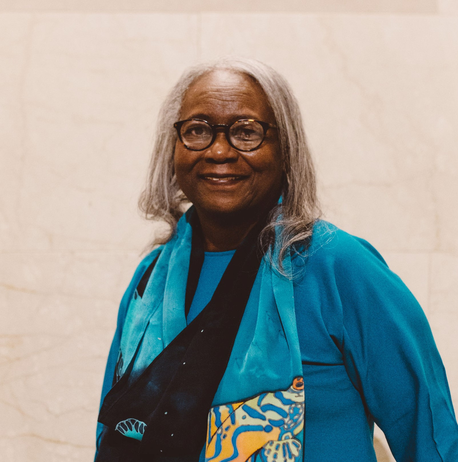 Image of fiber artist Mary Jackson